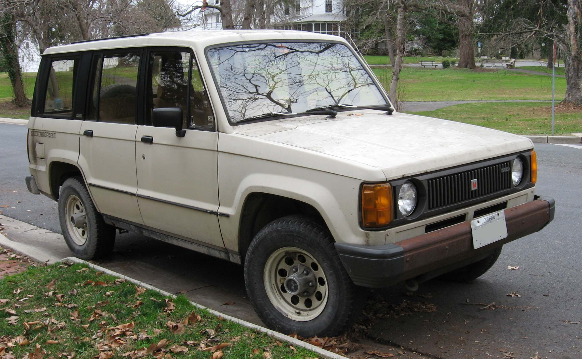 1984-1986 Isuzu Trooper photographed in USA.